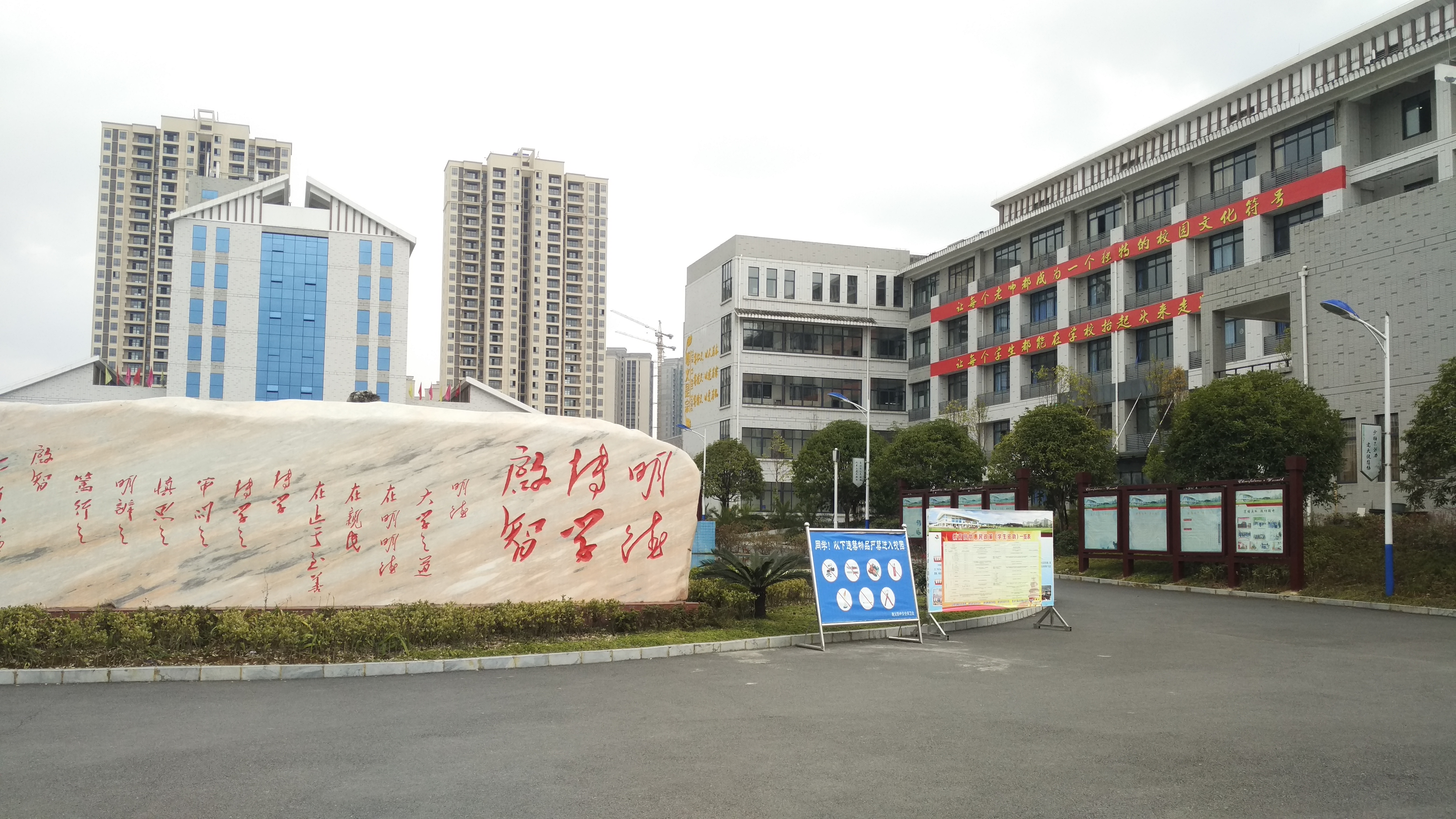 Zunyi No.4 Senior High School Xinpu Campus